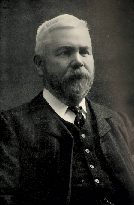 Samuel Galbraith, miners' agent for the Durham Miners' Association, later a Member of Parliament